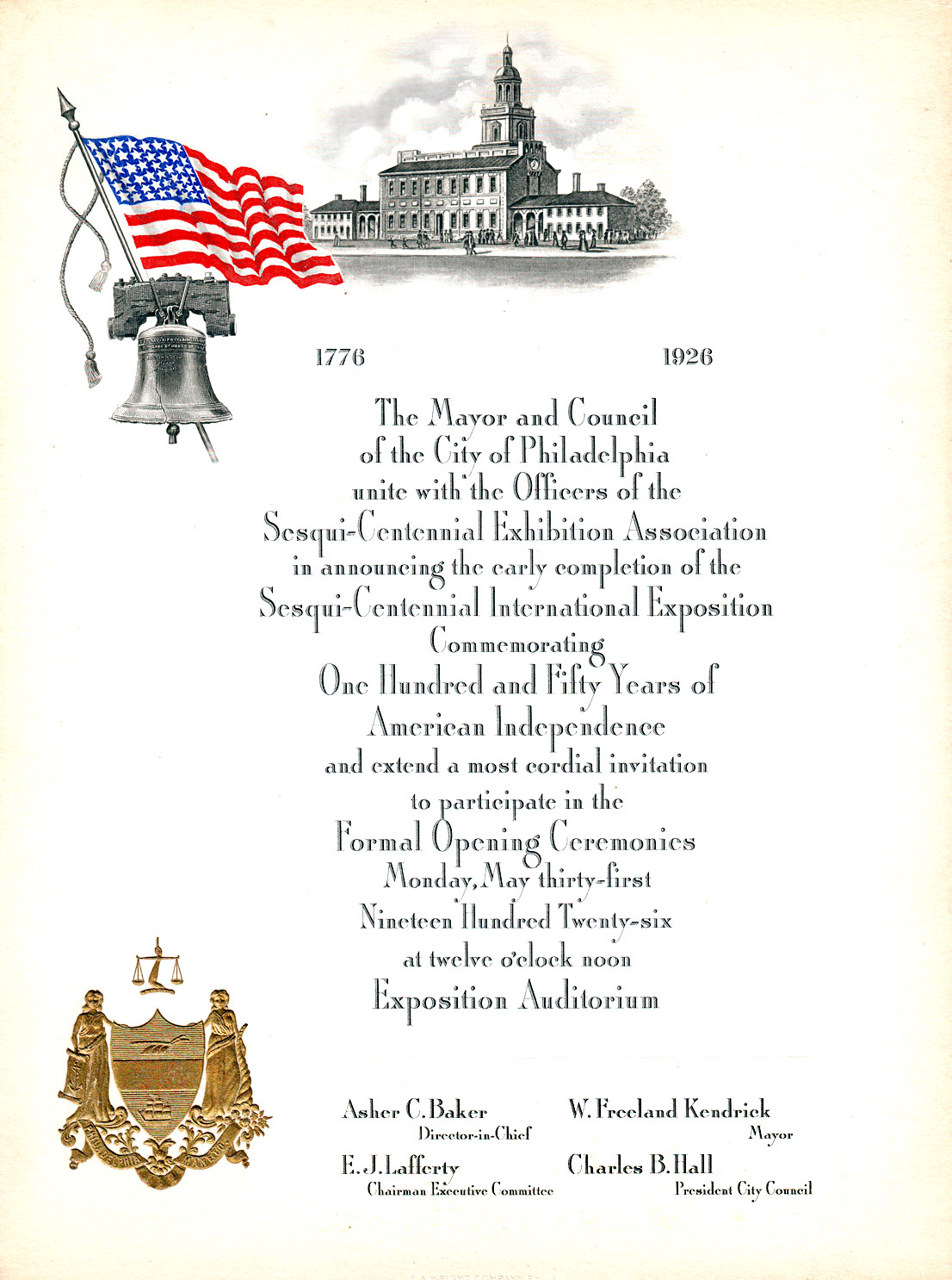 Engraved invitation to the Opening Ceremonies for the 1926 Sesqui-Centennial Exposition at Philadelphia, Pa., May 31, 1926 (Courtesy of the Bruce C. Cooper Collection)